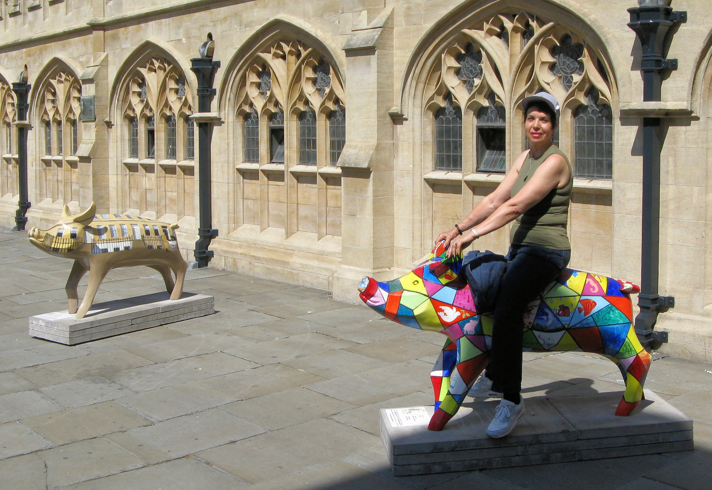 One of the 104 decorated pigs on display in the English city of Bath, in an event called “King Bladud’s Pigs in Bath”. This was a public art event to celebrate Bath, its origins and its artists - and provide residents and visitors with artistic enjoyment. Artists were given identical pigs to decorate. The results were put on display throughout the summer of 2008 around the city and local areas. The pigs have been auctioned to raise funds for the Two Tunnels Project. This will create a route, using an abandoned rail trackbed, beneath Combe Down - the high ground south of the city - creating an almost level and direct route between the city centre of Bath and the Sustrans path NCN 24, 2½ miles south of the city - a gateway to a wider network of routes. The right hand pig with the coloured patches is "Abi" painted by Annette Smith, the left hand pig is "Emily" painted by Charlotte Moore. Photographed by Adrian Pingstone in July 2008 and released to the public domain.